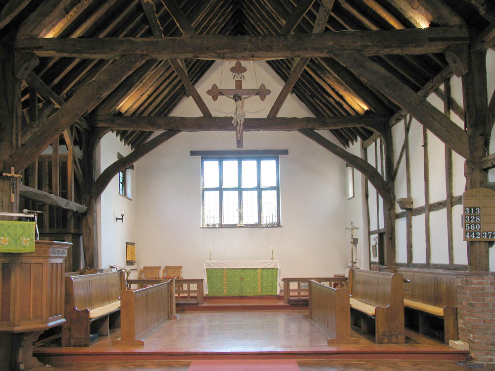 St Alban, Elmbrook Road, Cheam - Chancel